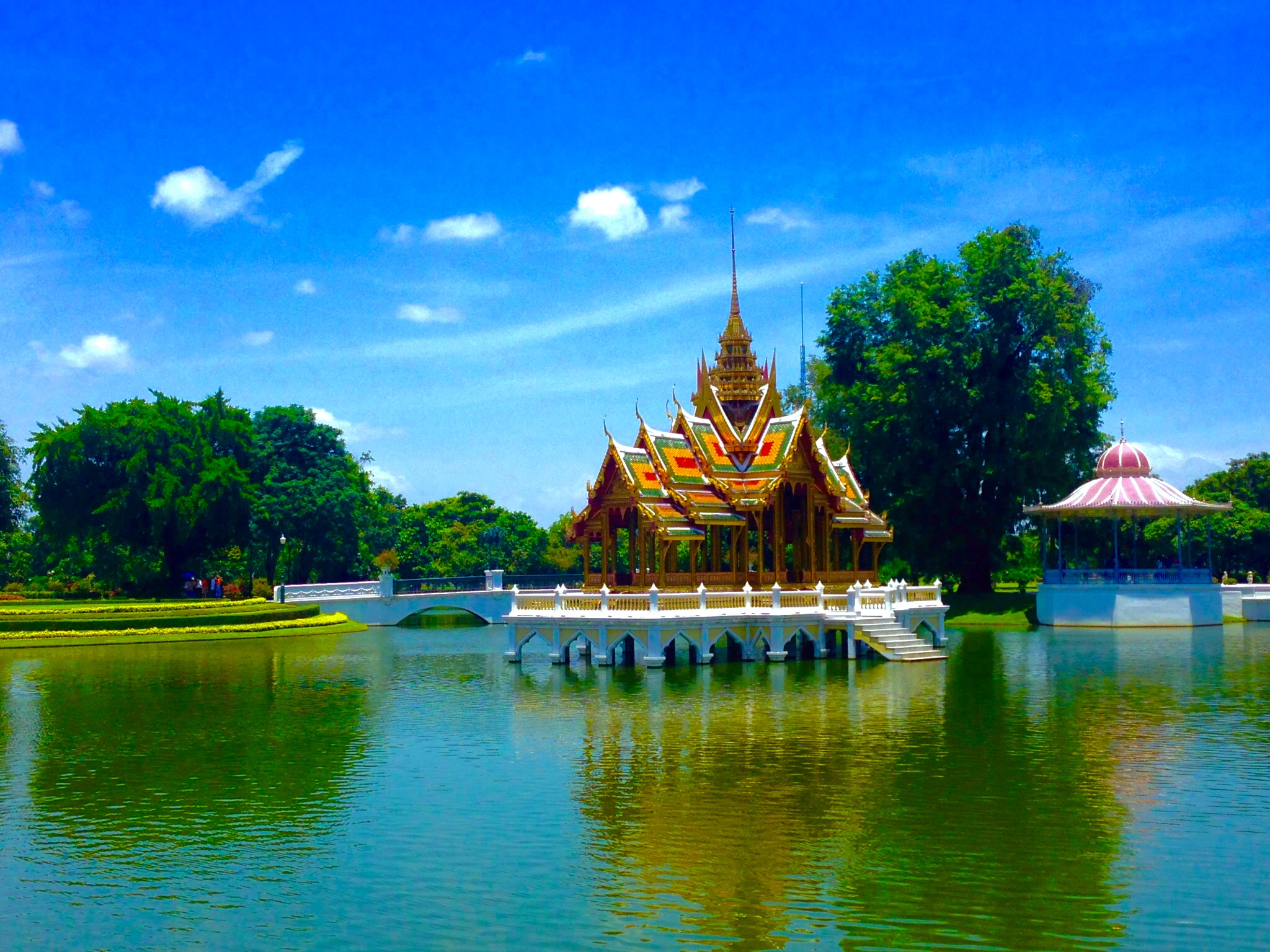 Bang Pa-In Royal Palace in Bang Pa-in District. July 18, 2013.